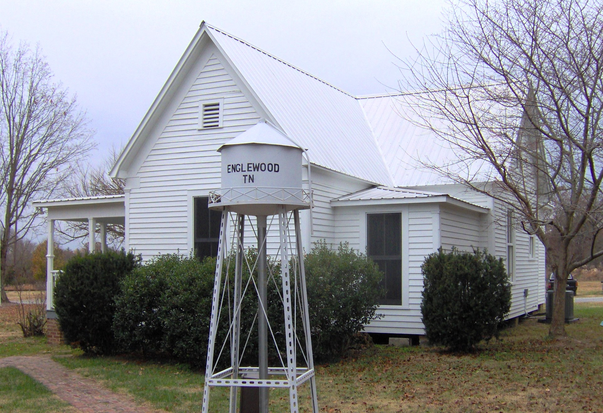 The Chestnutt House at the Englewood Textile Museum in Englewood, Tennessee, USA. A miniature model of the town's water tower is in the foreground. J.W. Chestnutt played a key role in establishing various industries in Englewood in the early 20th century.